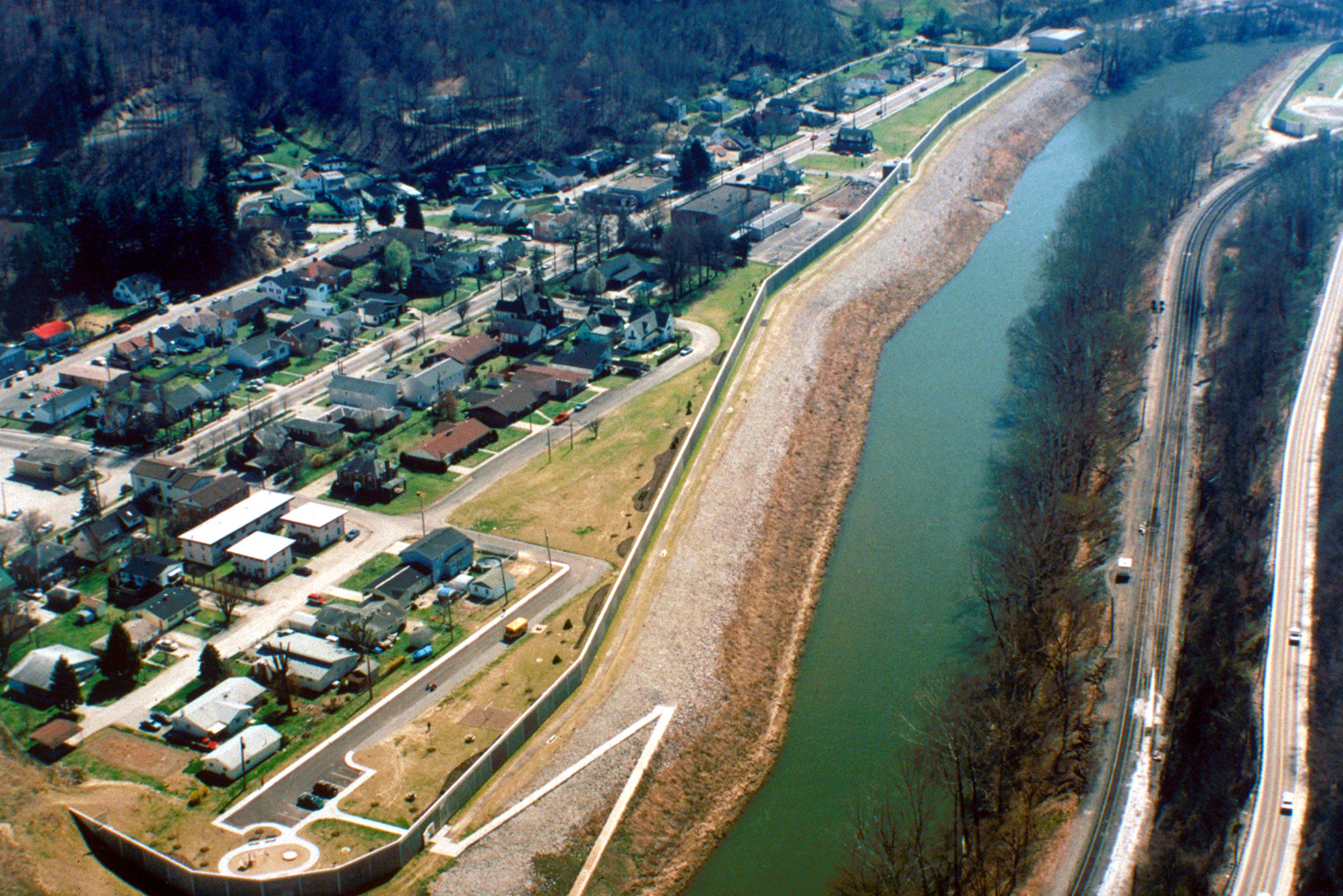 Aerial view of South Williamson, Kentucky, USA. The town is protected by a floodwall built along the Tug Fork River by the U.S. Army Corps of Engineers. The river here is the border between Kentucky and West Virginia. The view in this photograph is from the West Virginia side looking south-southwest over the river to South Williamson, Kentucky.